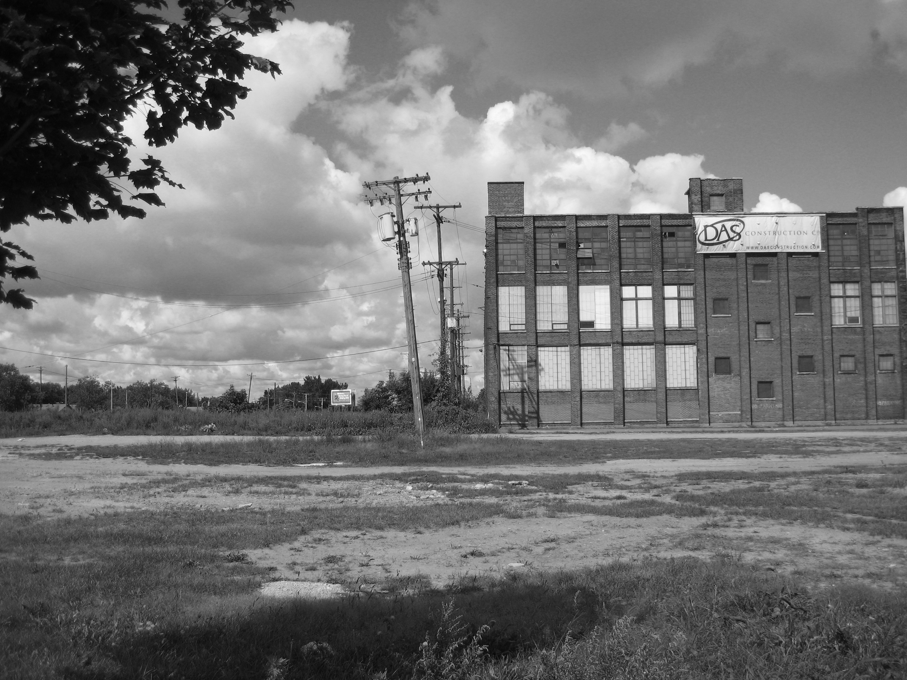 Abandoned Factory near Euclid Avenue in Cleveland, Ohio, United States.